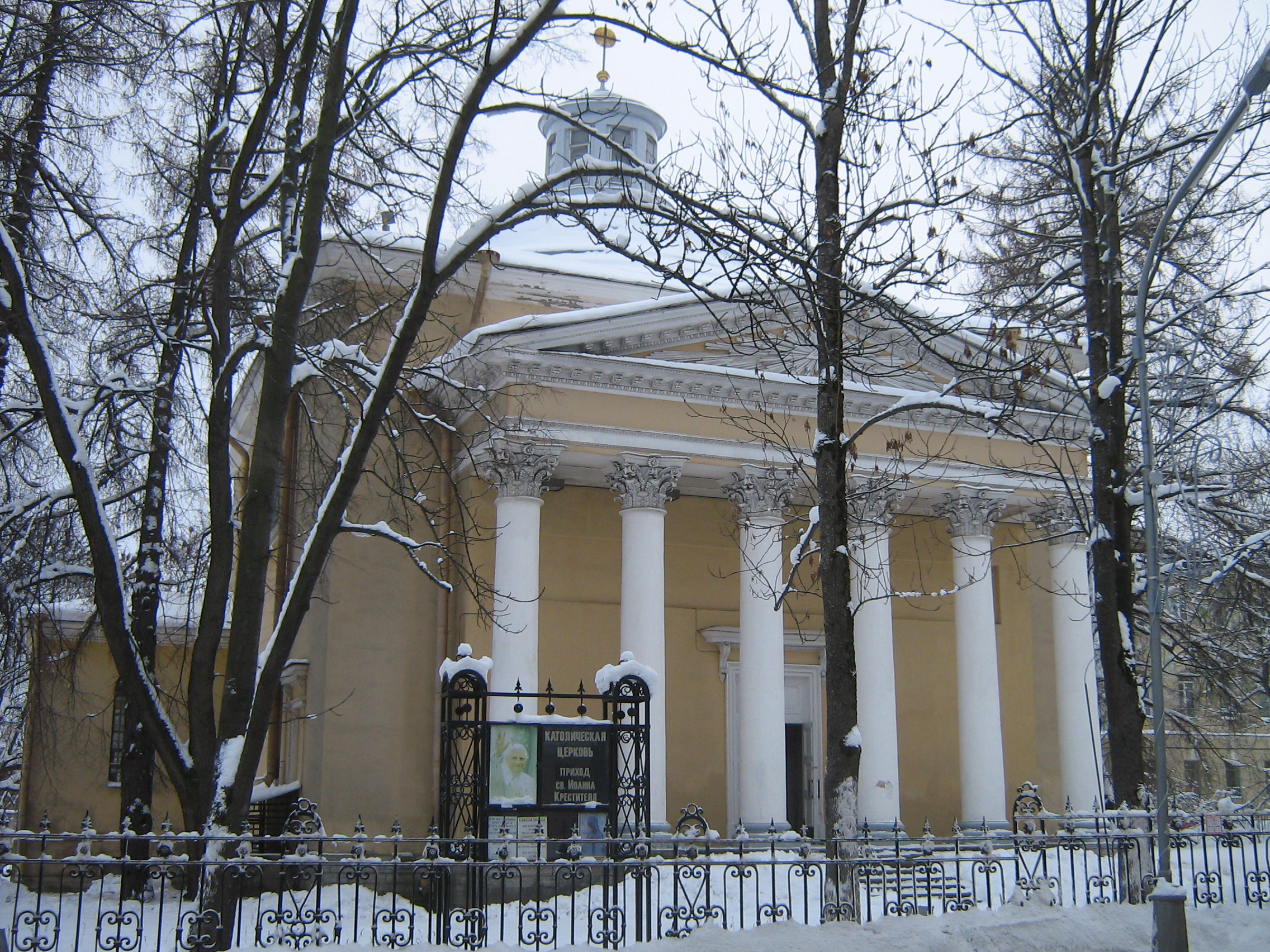 Saint Petersburg (Russia), town Pushkin.